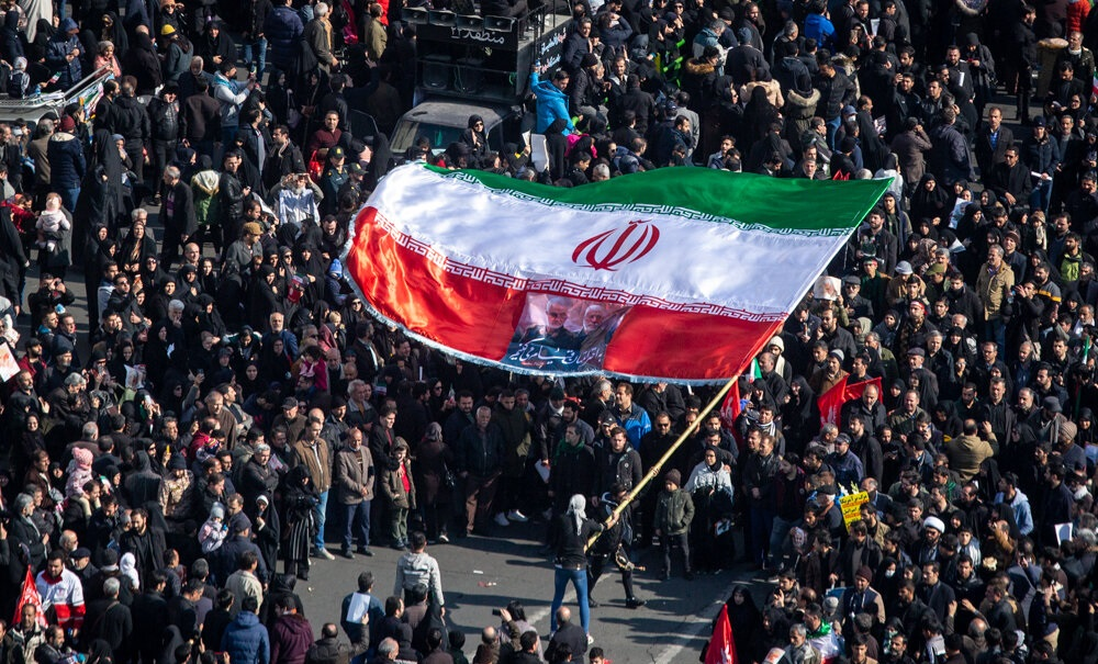 Funeral of Qasem Soleimani, Tehran, Iran on 6 January 2020.